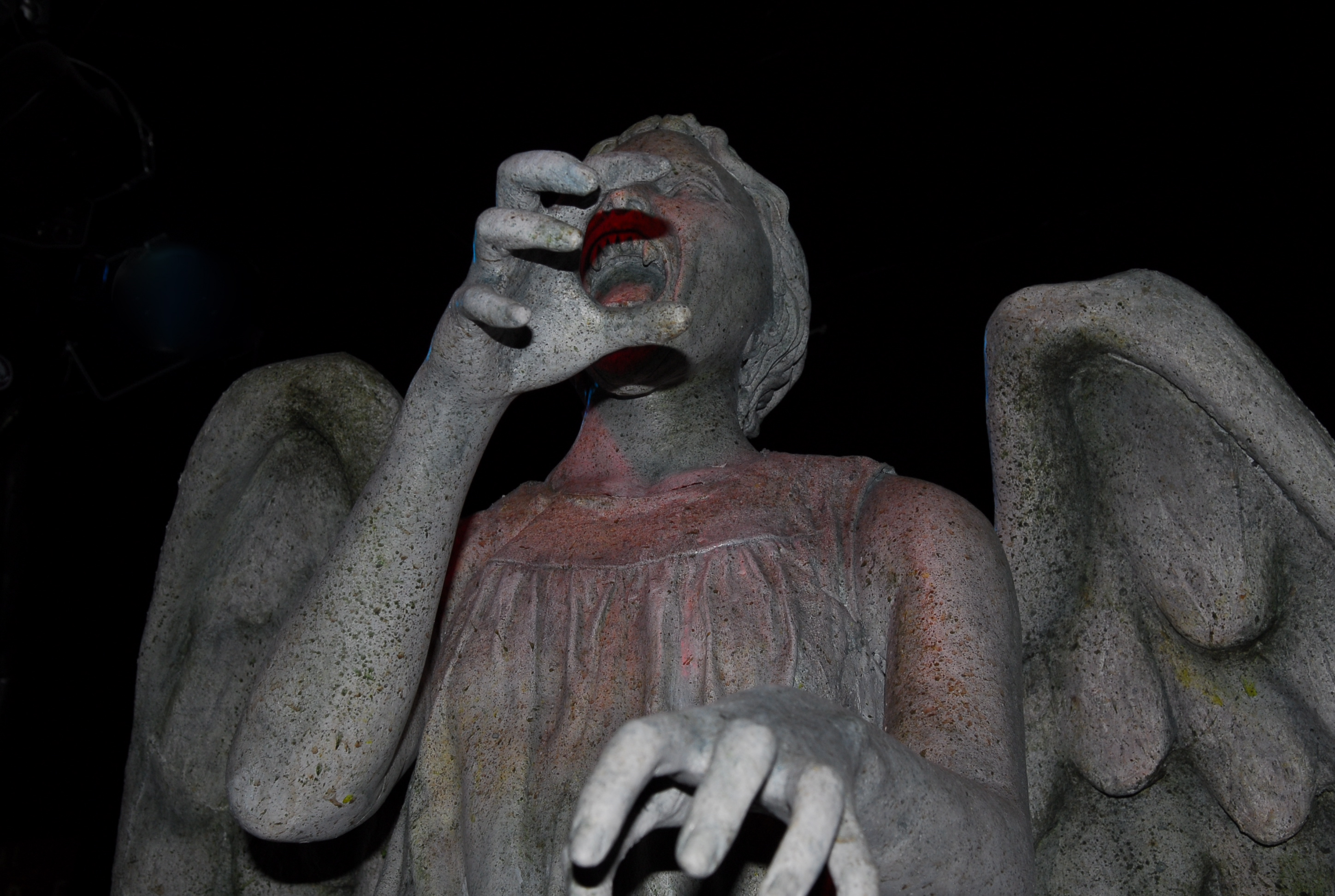 Don't blink! Doctor Who Experience